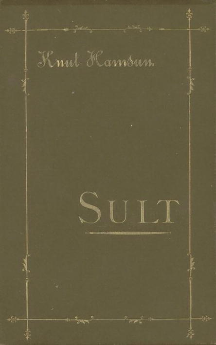 Hunre, first edition